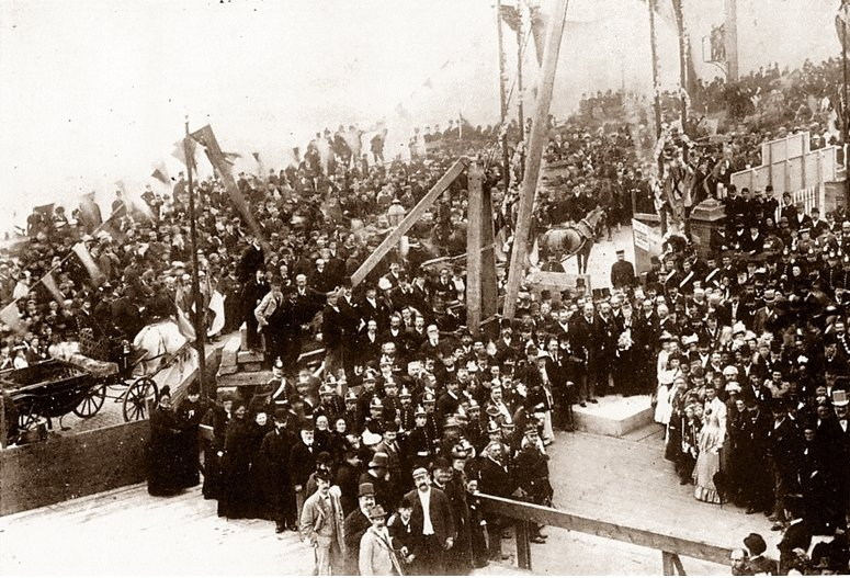 Laying founding stone of Blackpool Tower (25th September 1891)